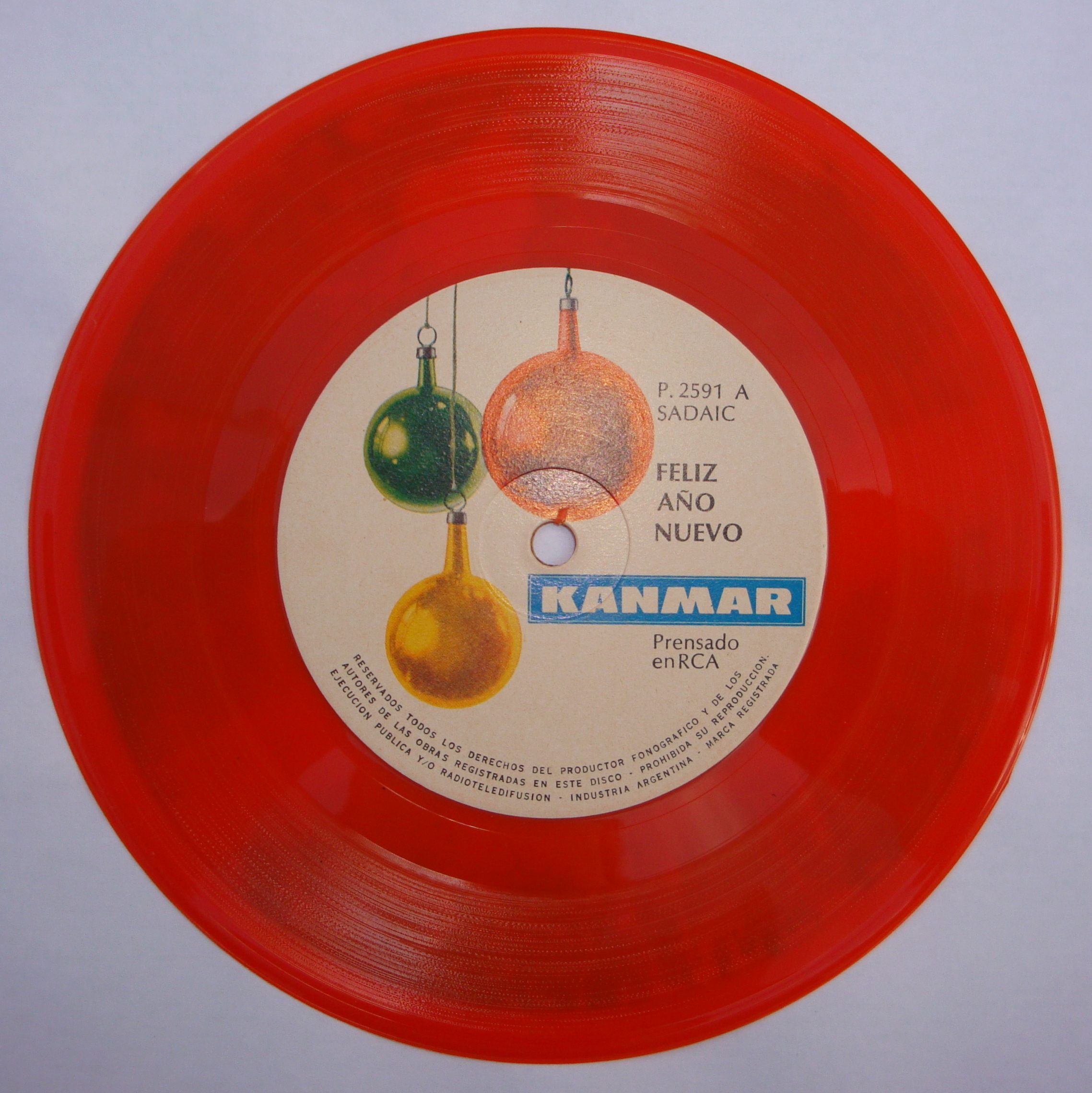 A promotional vinyl single produced during the 1960s in Argentina and distributed to employees at Kanmar, a real estate company. The vinyl is vermilion-colored, with a label depicting three Christmas ornaments, the words "Feliz Año Nuevo", "Kanmar", "Prensado en RCA" and "P.2591 A SADAIC."